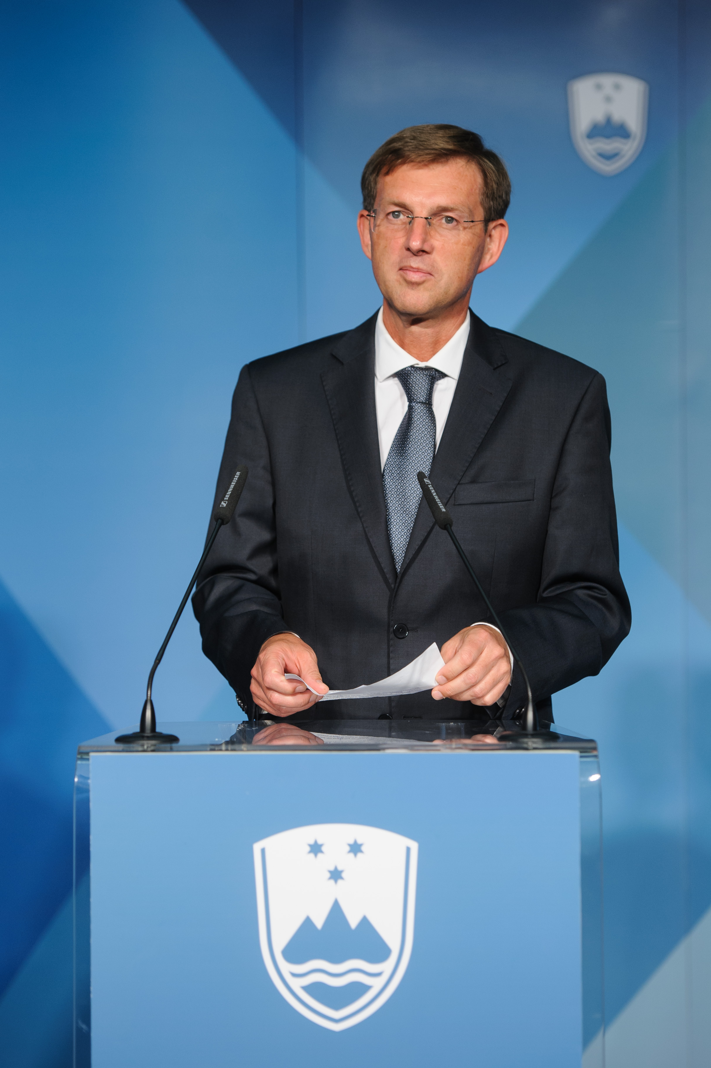 Miro Cerar, President of Slovenian government (2014)